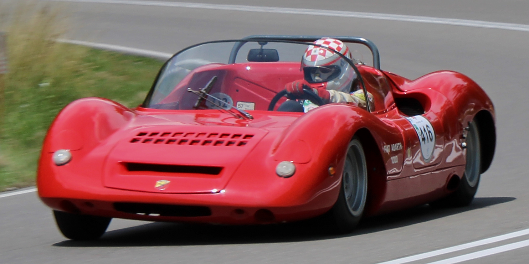 Fiat-Abarth 1000 SP (1968) at Solitude Revival 2019